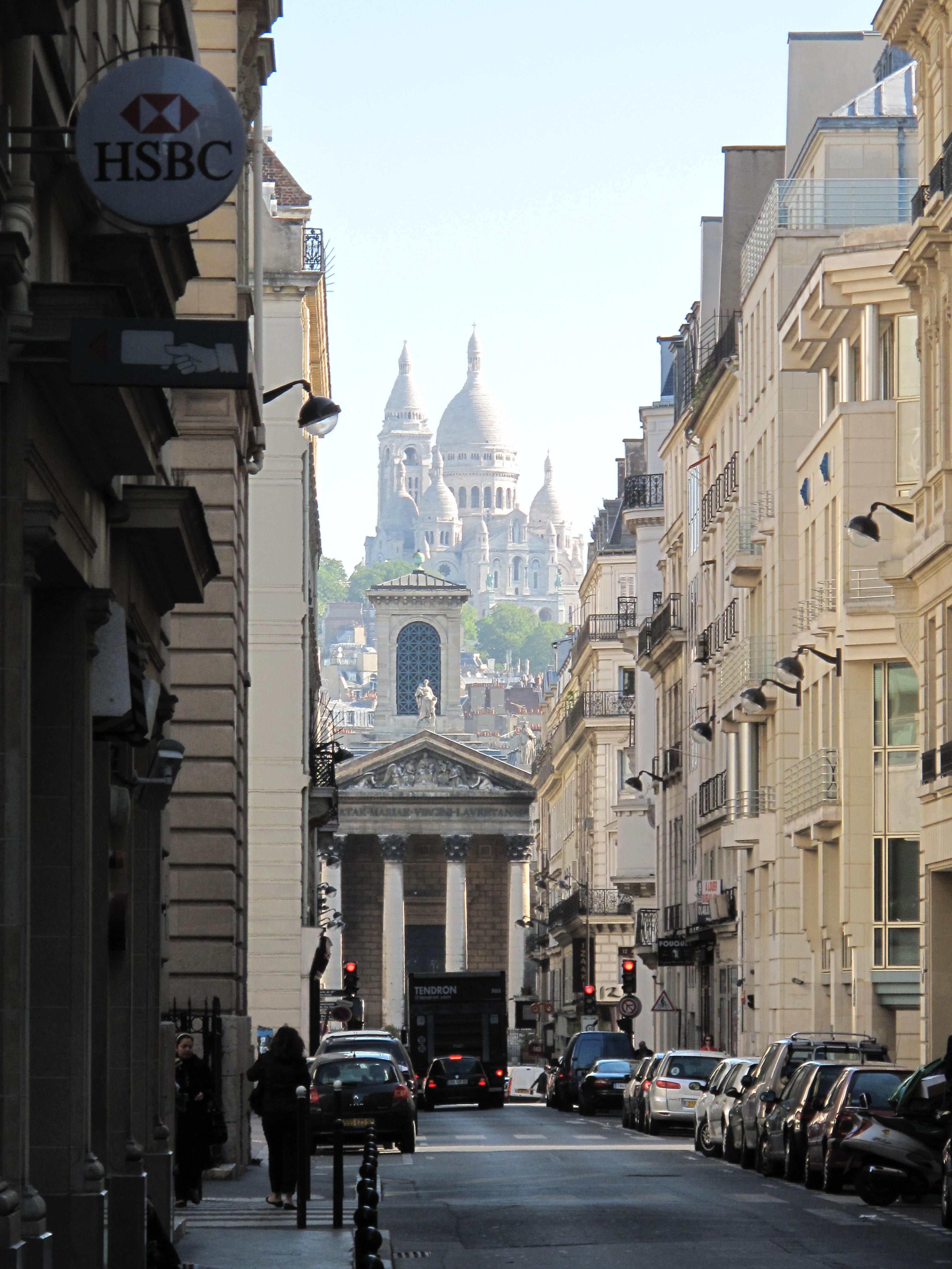 Rue Laffitte, with the church of Notre Dame de Lorette and the basilique du Sacré Coeur in the background